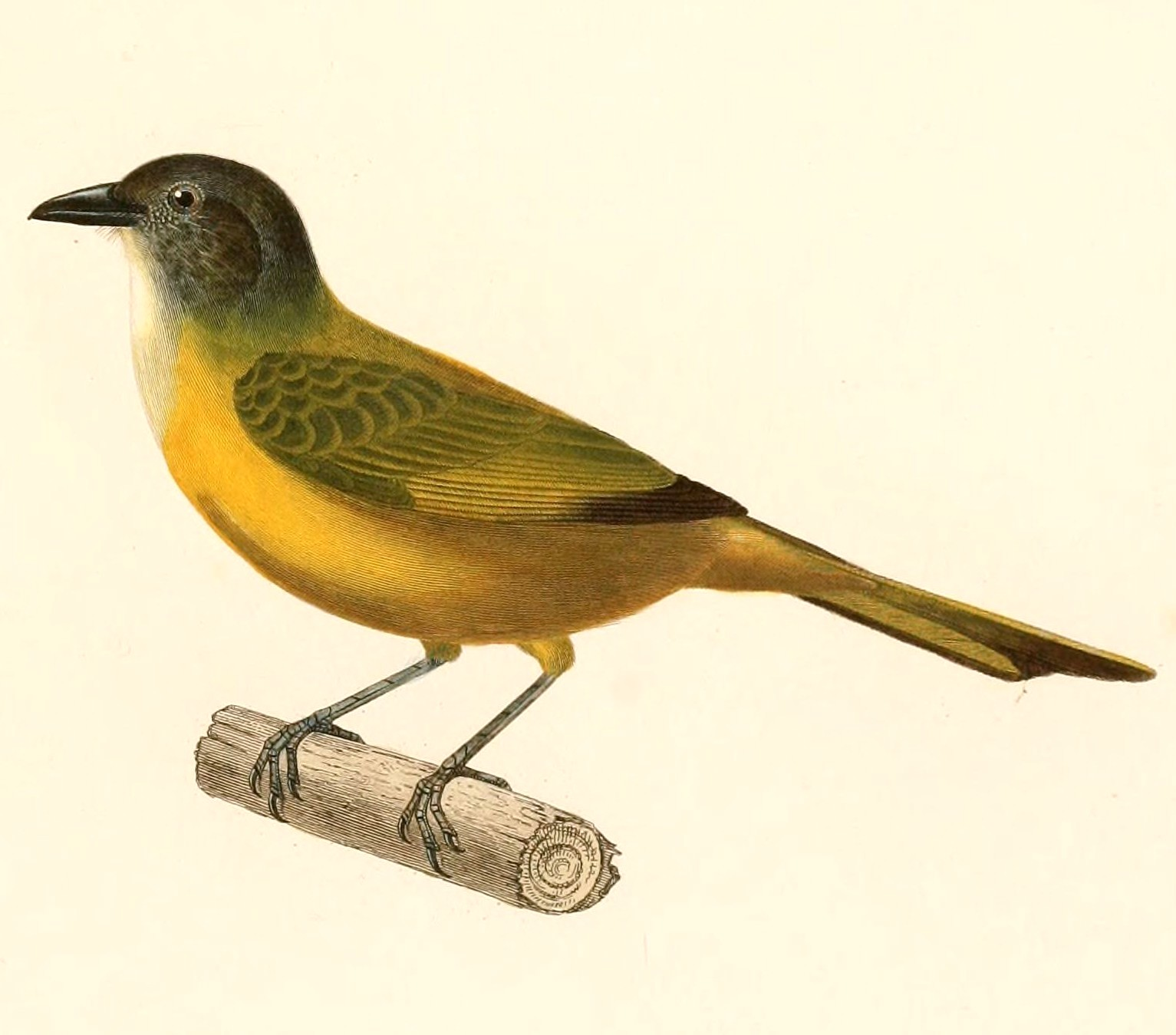 « Tachyphonus luctuosus » = Tachyphonus luctuosus (White-shouldered Tanager) - female